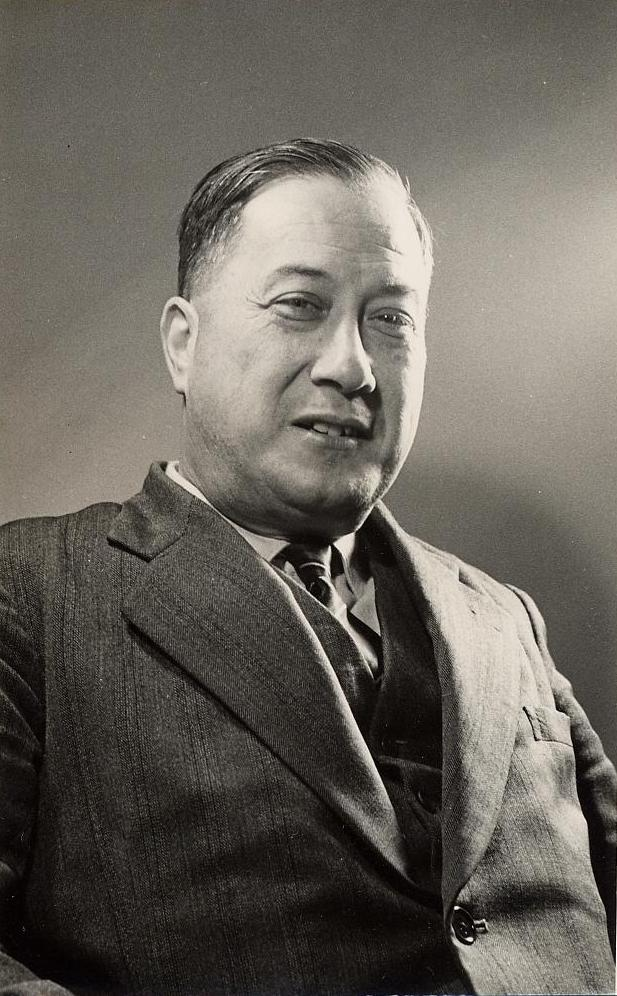 中文（香港）: Portrait of the Rev. Canon George She